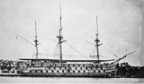 The French ship Duperré 1860-1869